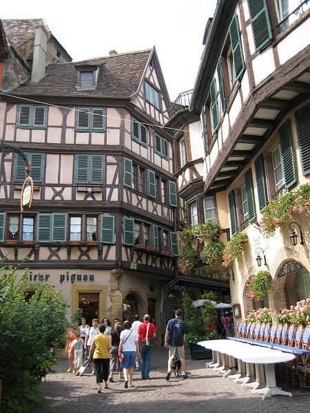 Colmar, view of the old city